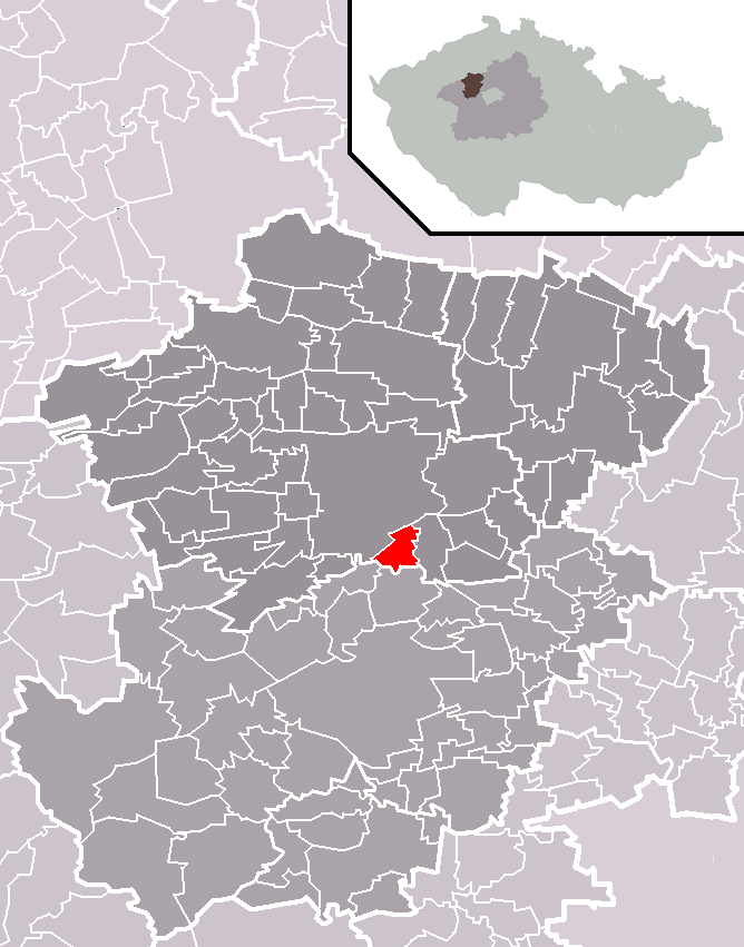 Location of Jemníky municipality within Kladno District and administrative area of Slaný as a Municipality with Extended Competence.